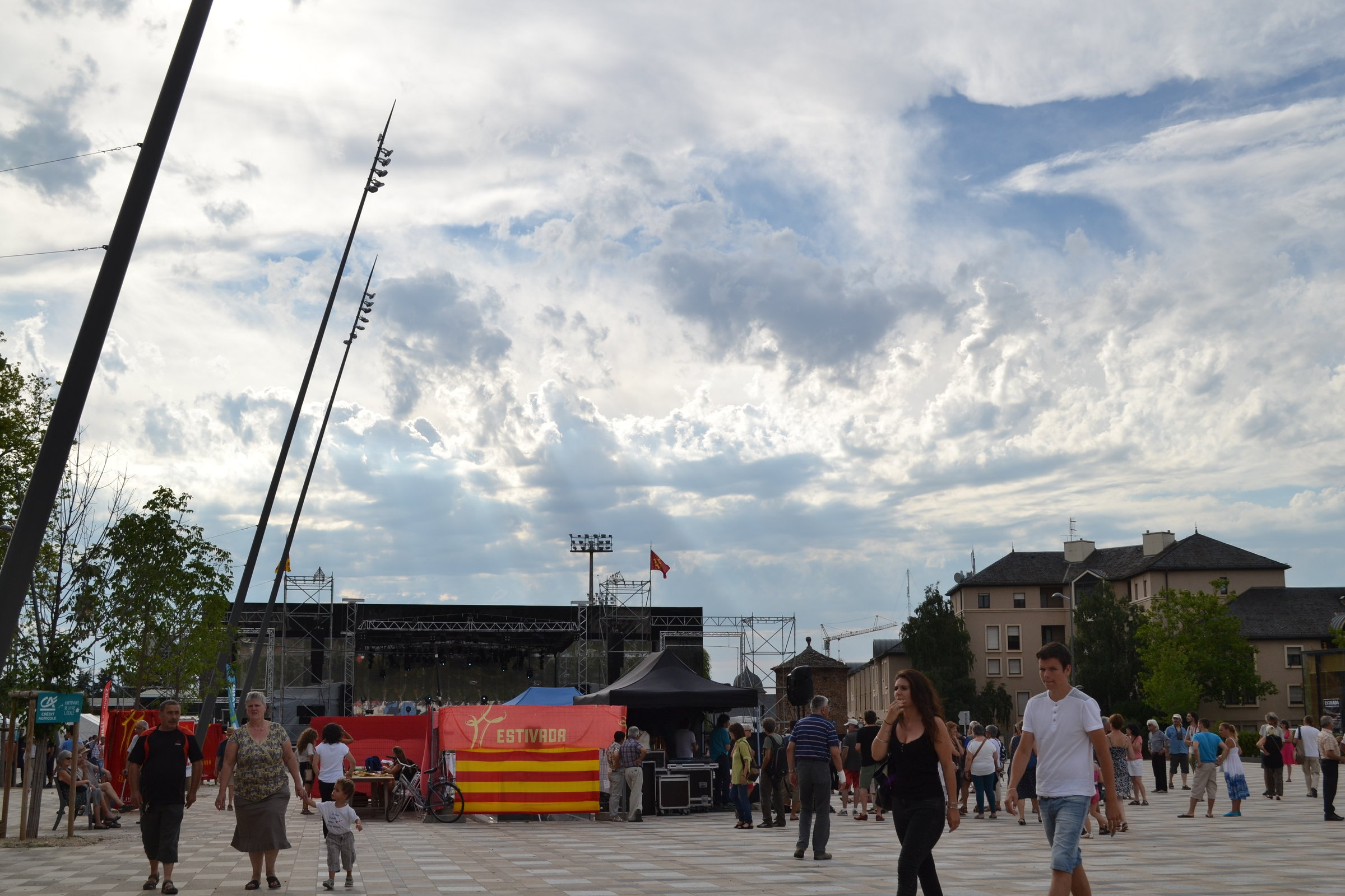 Estivada 2015 big stage.